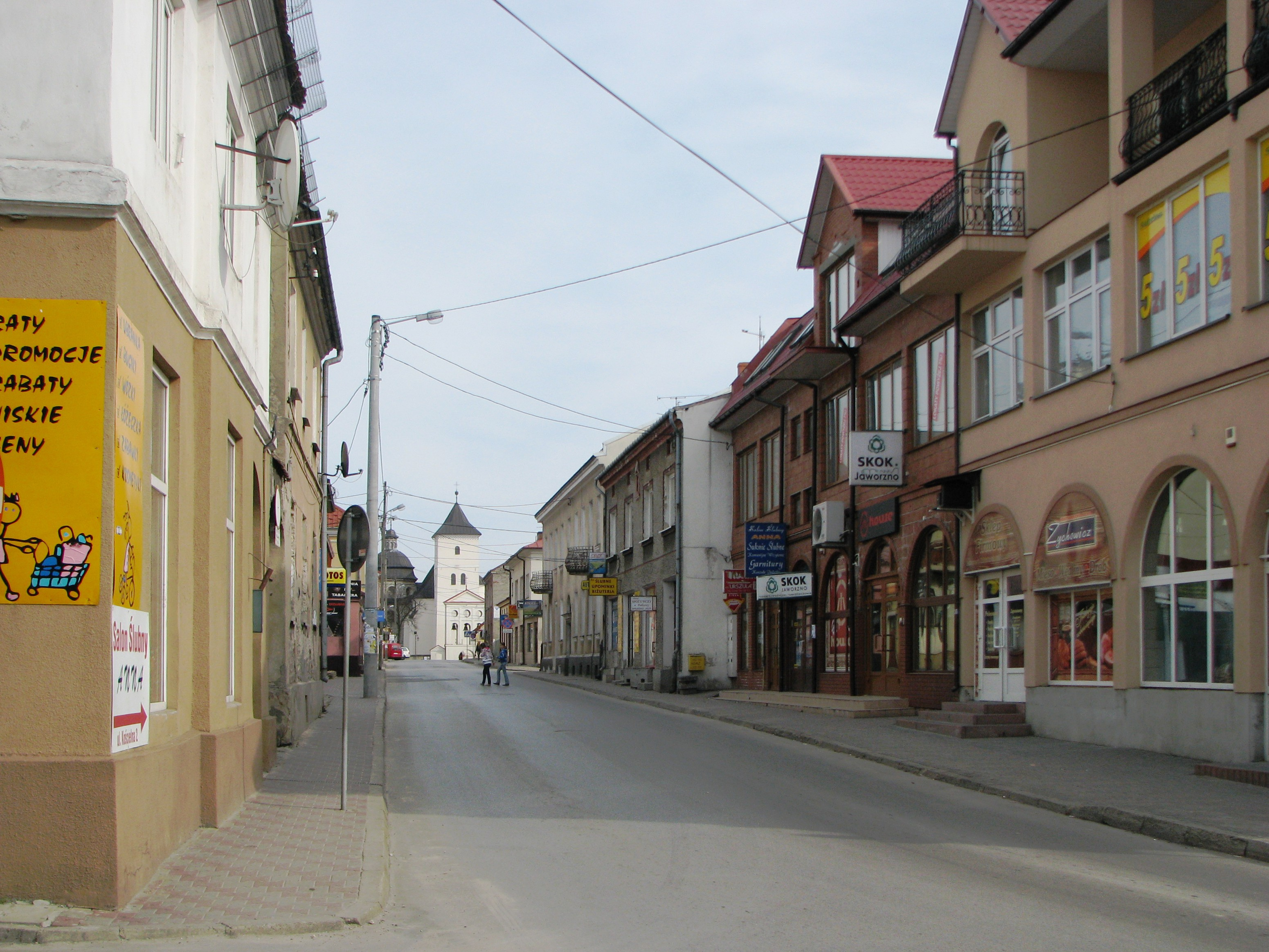 Długa Street in Staszów, Poland. Old Town Quarter.